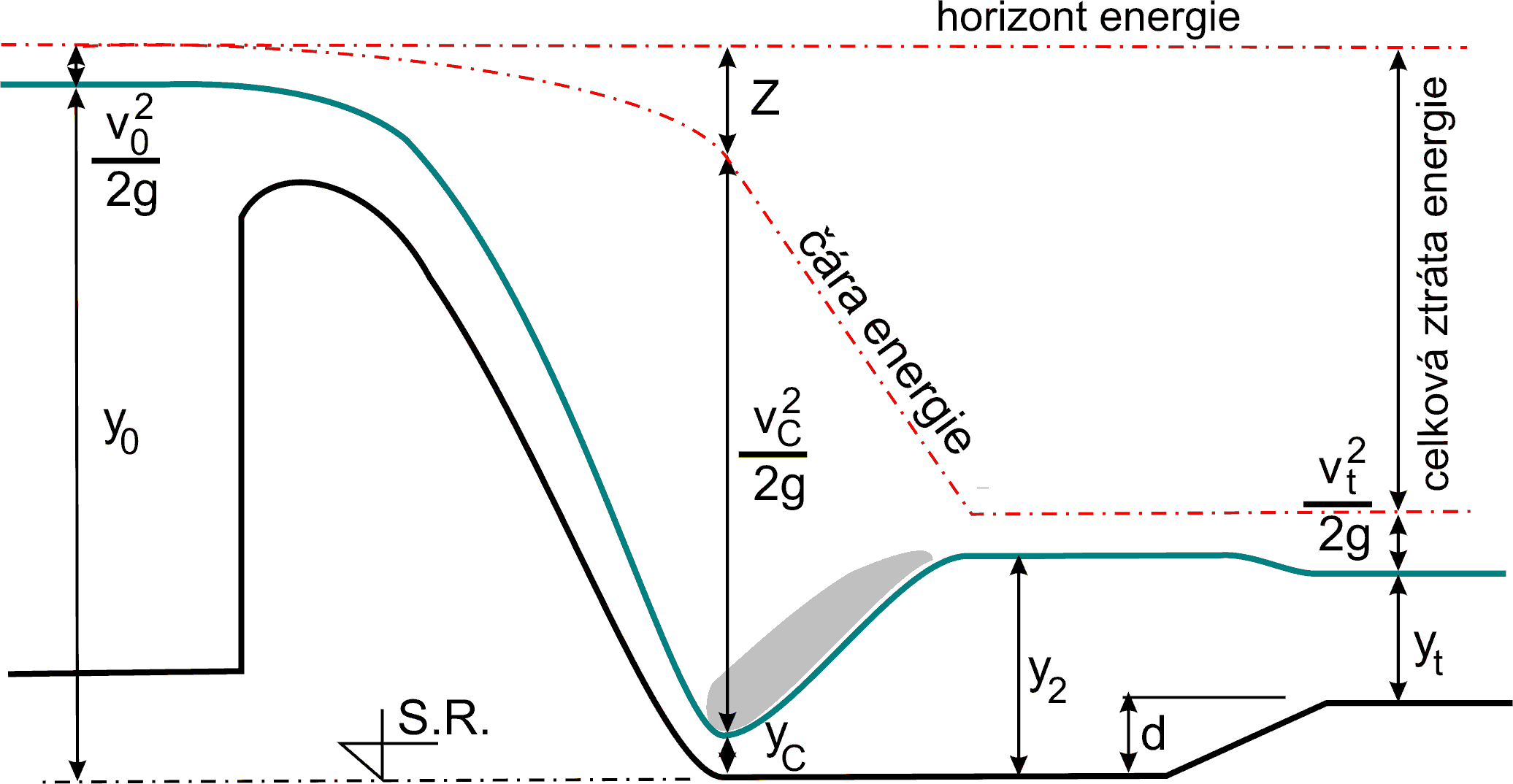 Stilling basin design scheme